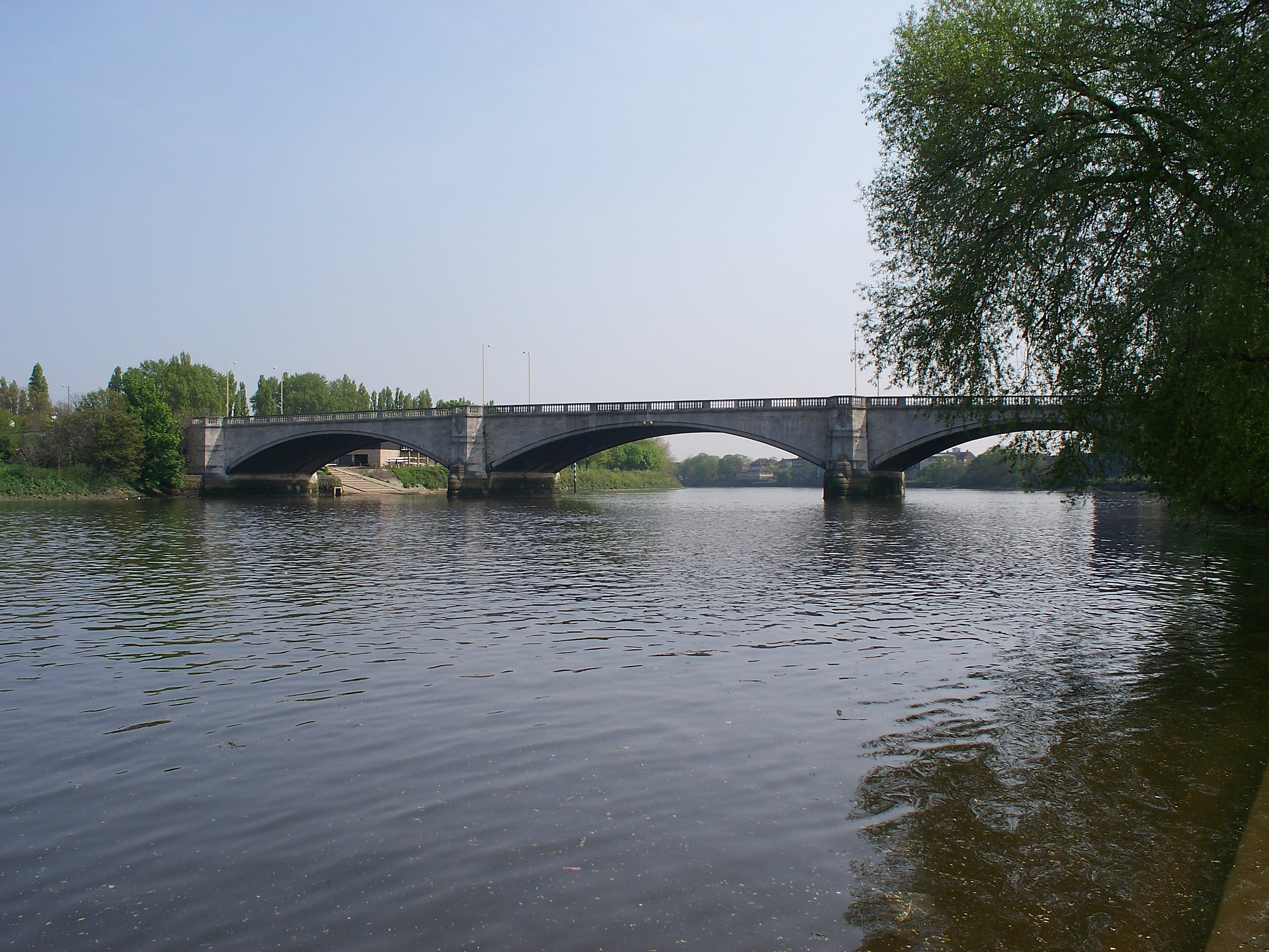 Chiswick Bridge, London. Photograph taken in a public location in the UK of a building on permanent public display, and exempt from copyright under Section 62 of the Copyright Designs & Patents Act 1988 ("it is not an infringement of copyright to film, photograph, broadcast or make a graphic image of a building, sculpture, models for buildings or work of artistic craftsmanship if that work is permanently situated in a public place or in premises open to the public")